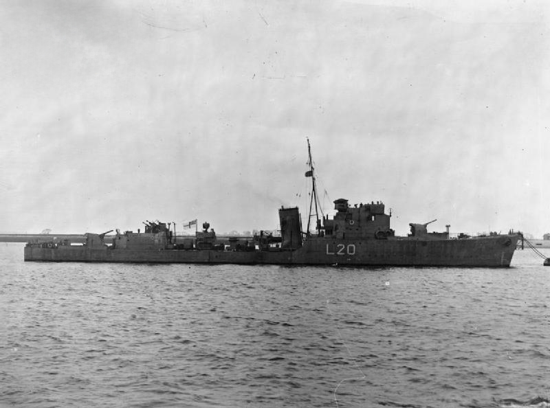 Photograph of British Hunt class destroyer HMS Garth.